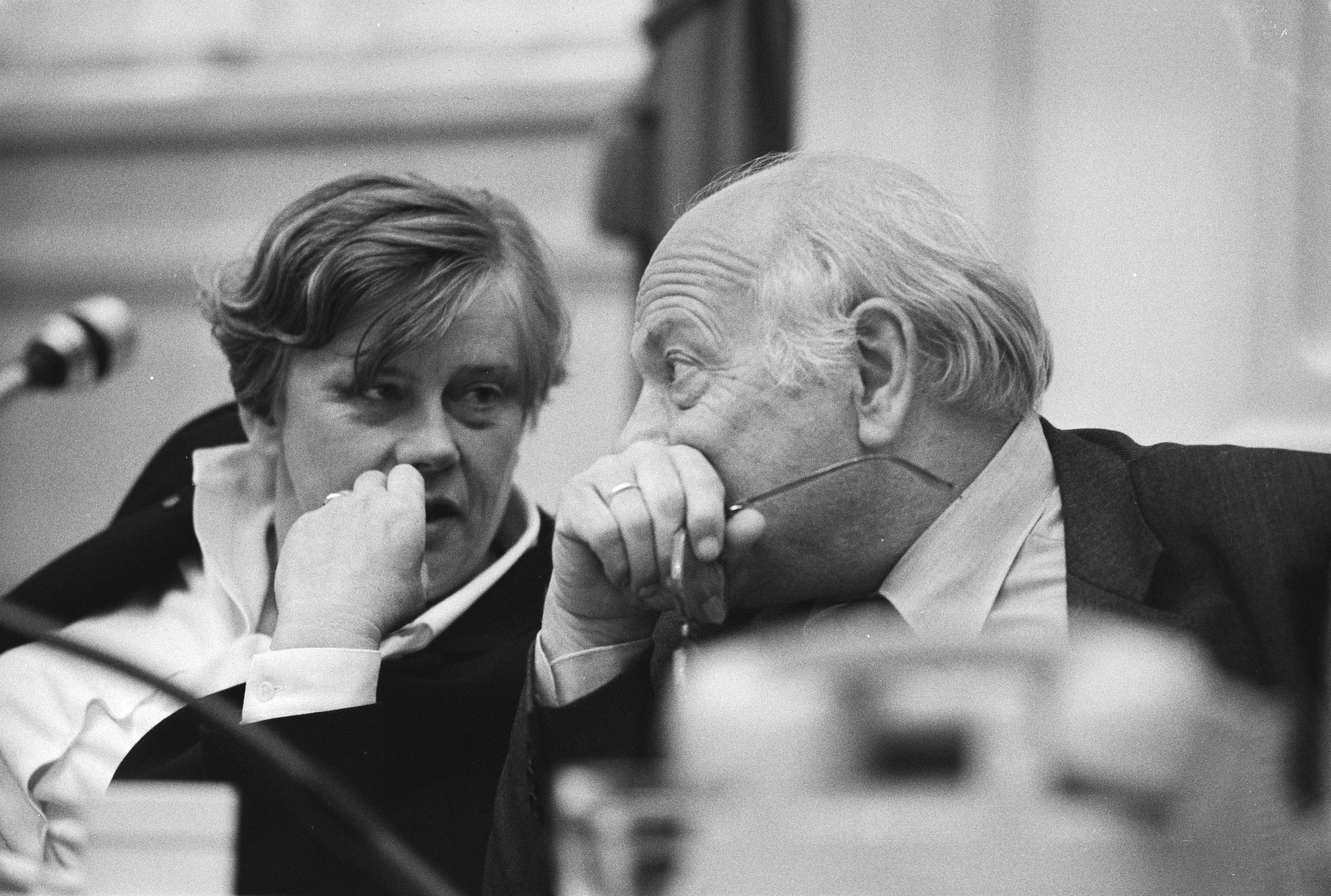 Staatssecretaris Dales (PvdA) en vice-premier Den Uyl (PvdA) tijdens de behandeling in de Tweede Kamer van de behandeling van het wetsontwerp eenmalige uitkering (Den Haag, 17 september 1981)